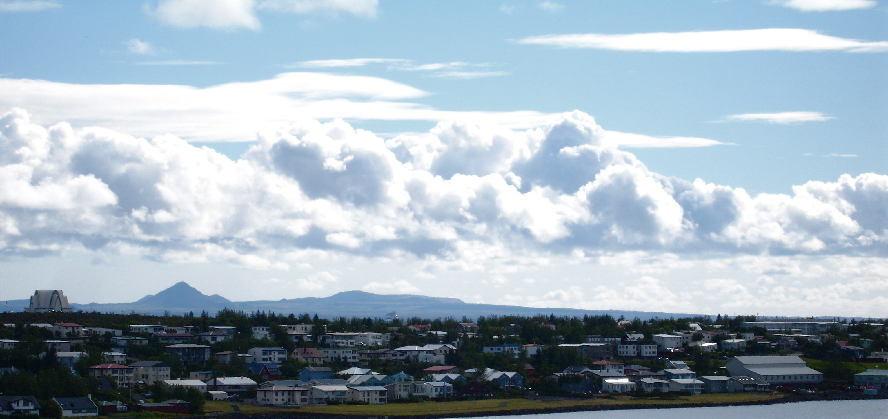 A picture of Keilir as seen from Reykjavík.